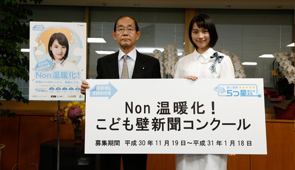 Non, Goodwill Ambassador for the Energy Saving Home Appliances, met Yoshiaki Harada, Minister of the Environment, at the Central Government Building No.5 in Chiyoda Ward, Tōkyō Metropolis on November 19, 2018.